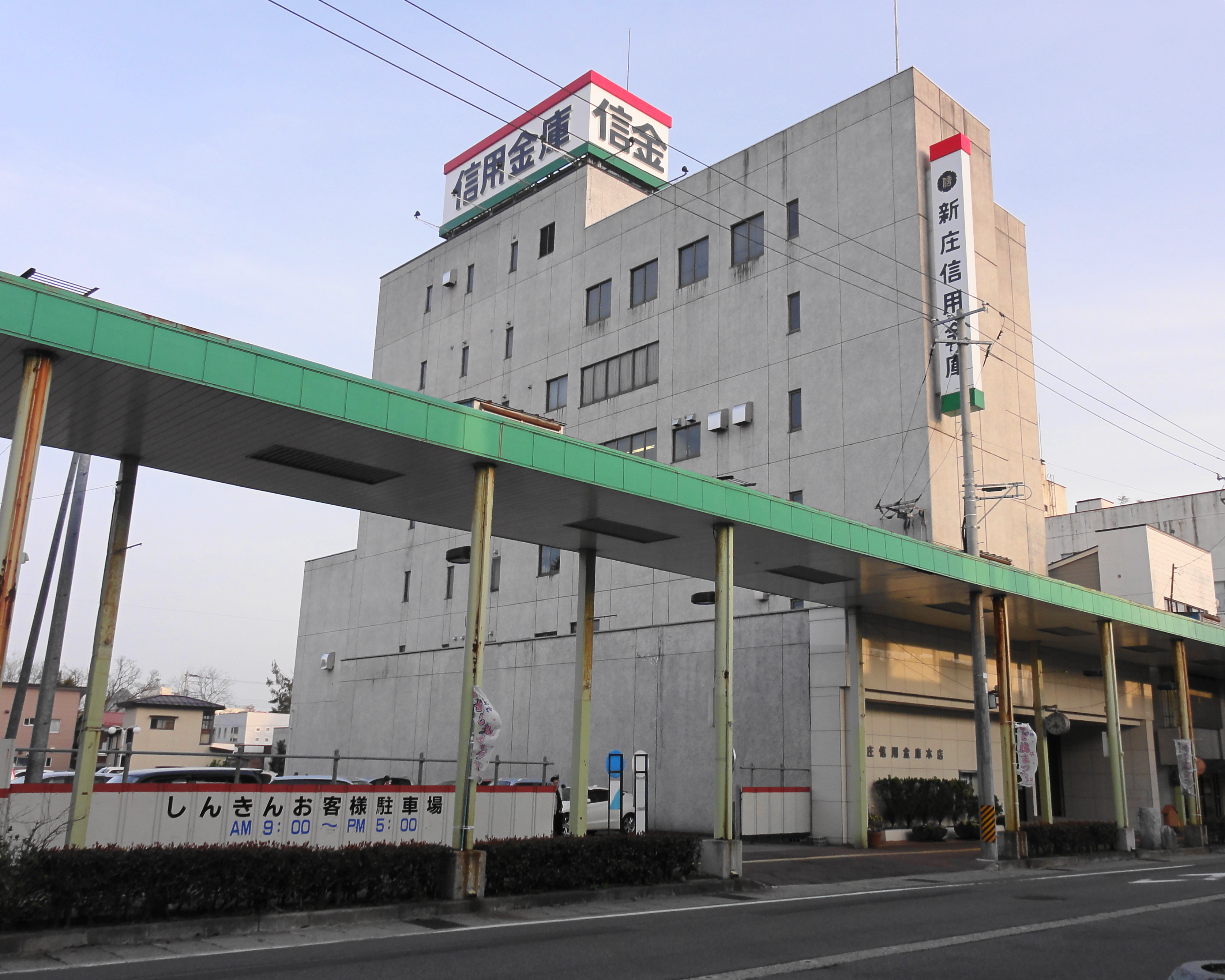 Shinjo shinkin bank(head office),Yamagata prefecture, Japan